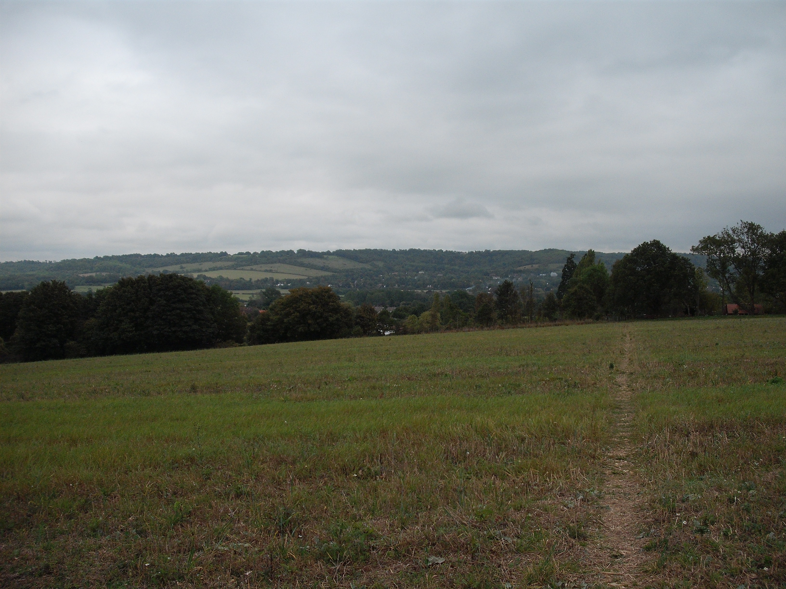 Photograph of part of Darent Valley Path & scenery at Otford, Kent, UK.